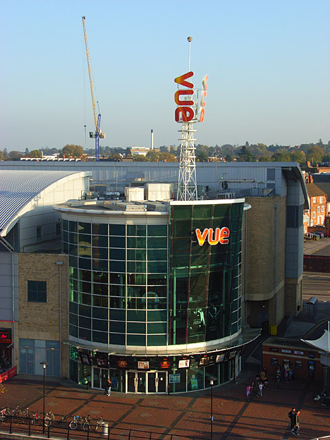 Part of the riverside entertainment district.